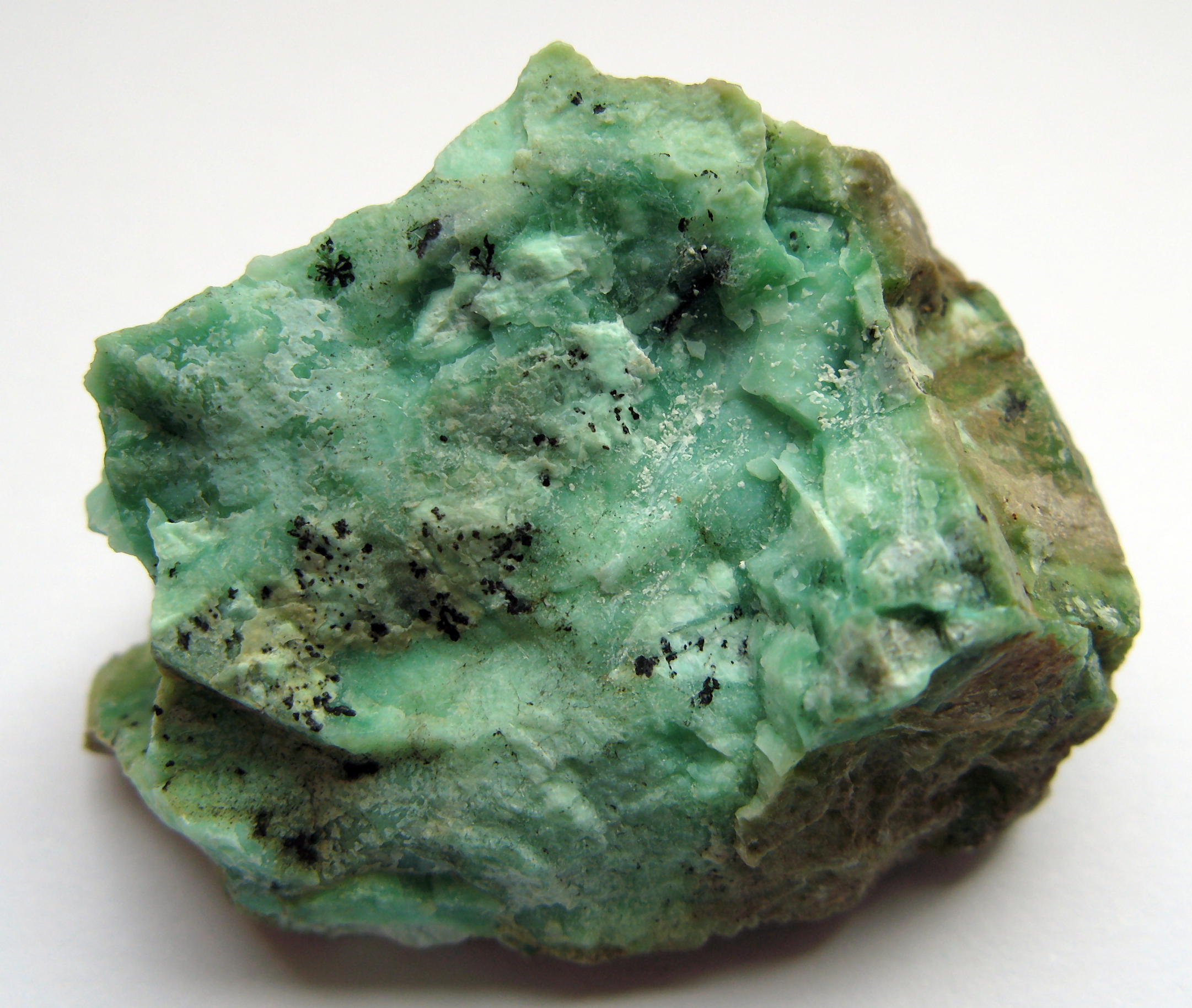 Clinochrysotile - Group Serpentine from China